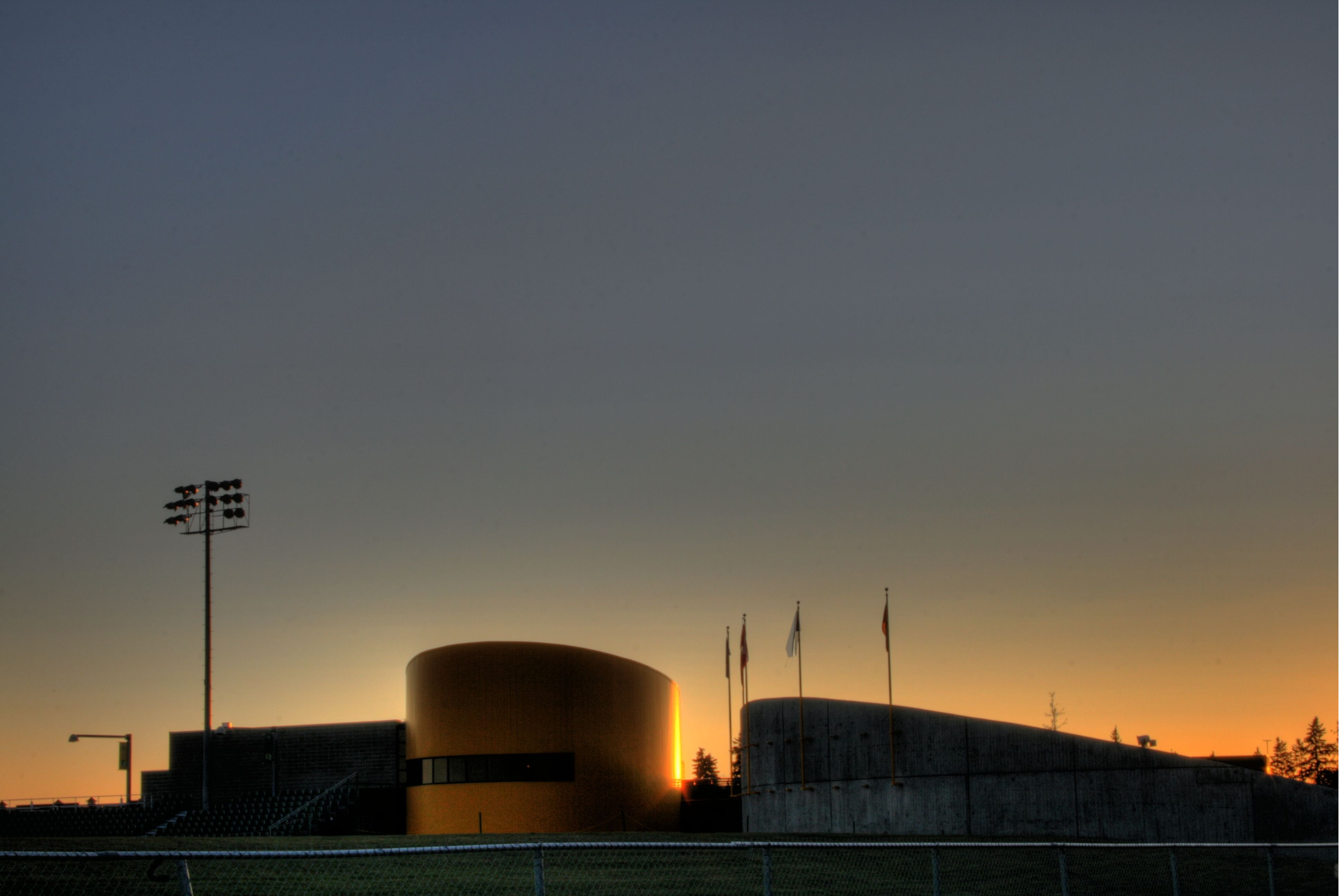 Foote Field athletic complex at the University of Alberta South Campus in Edmonton, Alberta, Canada.